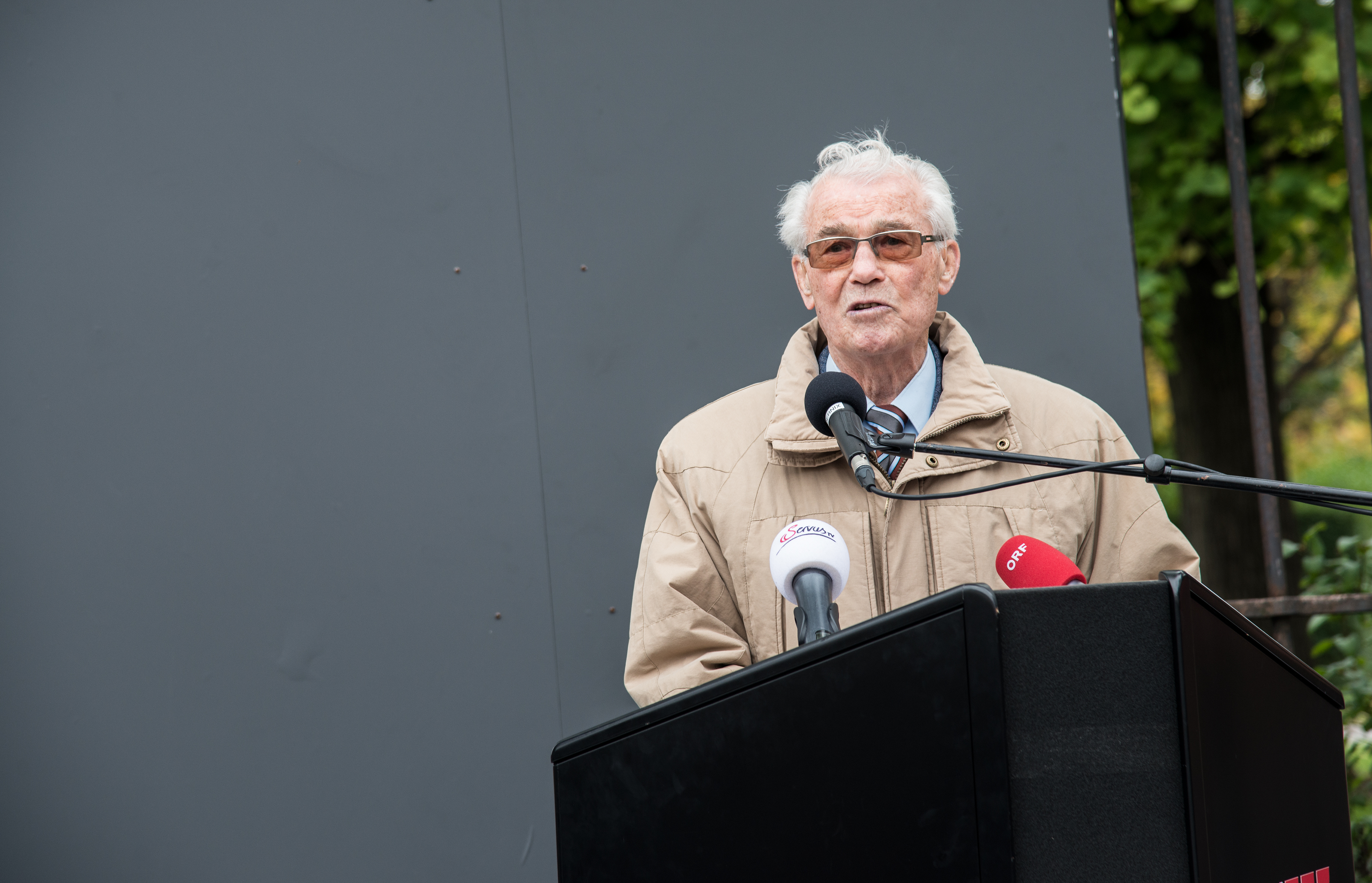 Richard Wadani speaks at the Opening of the Monument for the Victims of Nazi Military Justice at the Ballhausplatz in Vienna